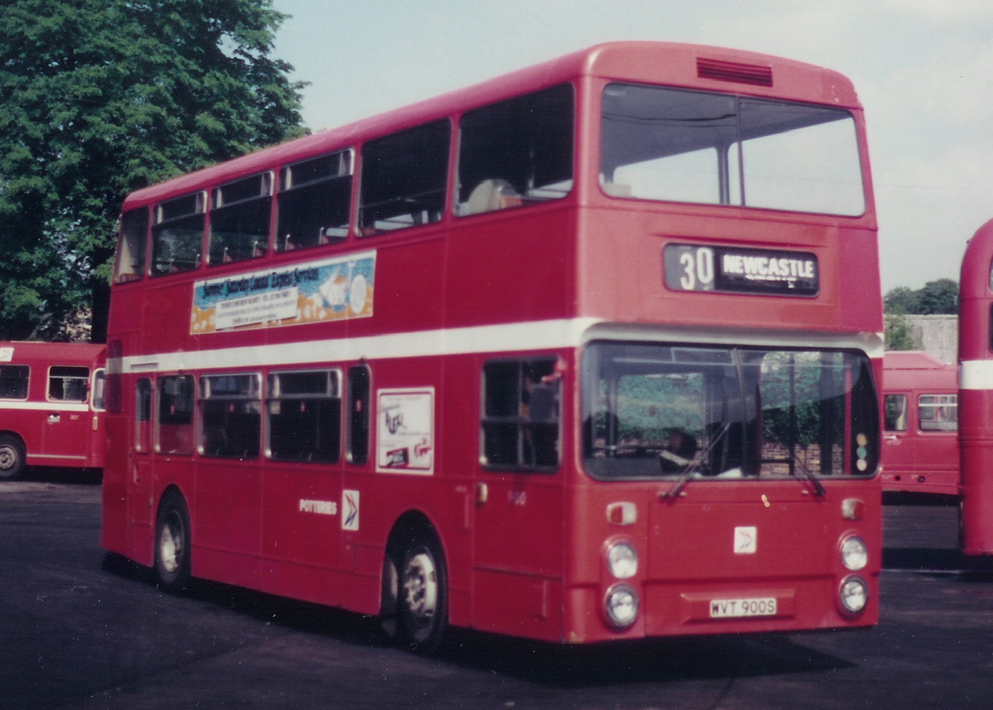 Foden-NC with Northern Counties H43/31F bodywork new in 1978 as Potteries Motor Traction 900 WVT900S